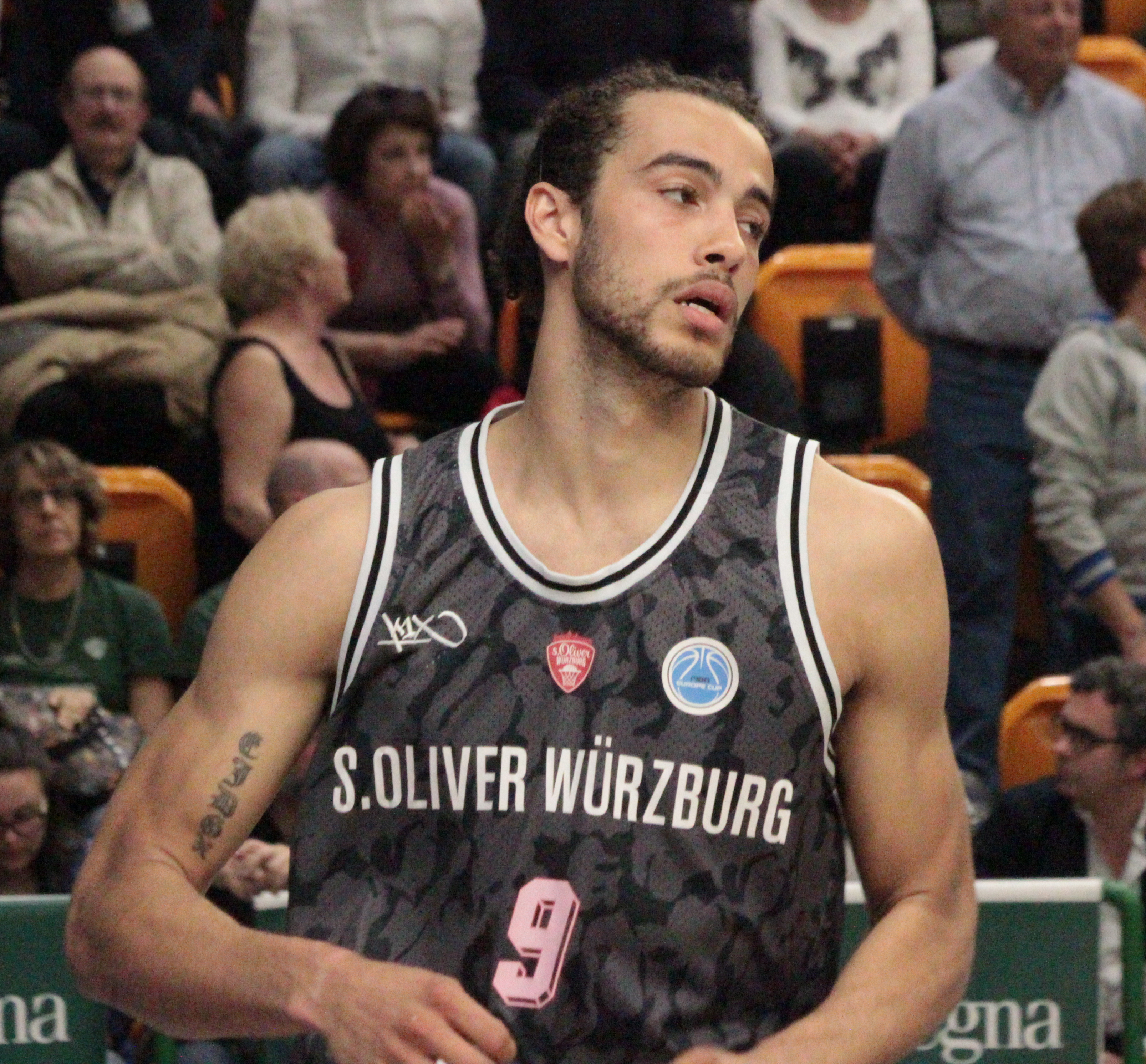 Australian basketball player Xavier Cooks with S.Oliver Wurzburg uniform